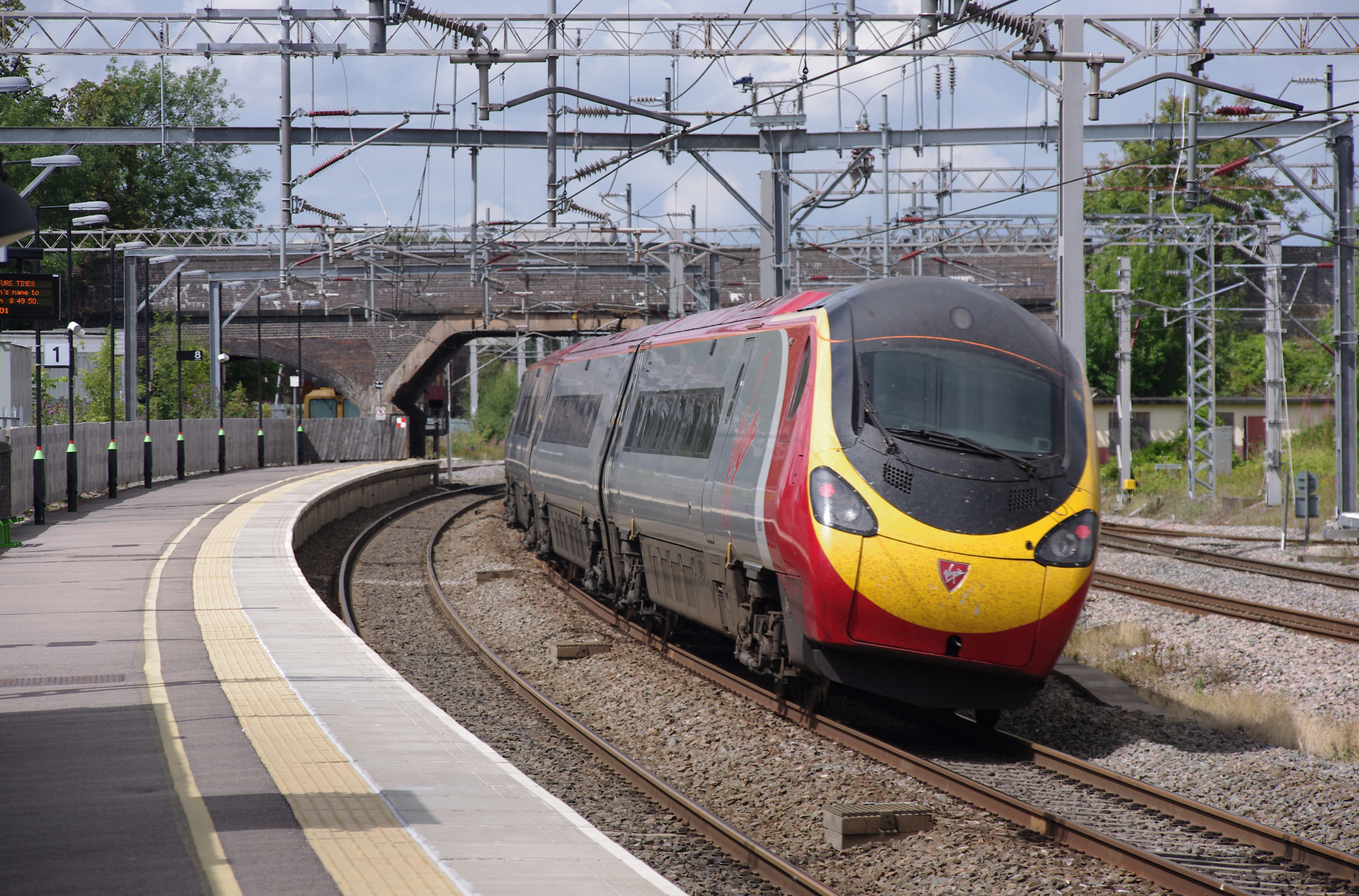 A Virgin West Coast Pendolino EMU speeds north through Lichfield Trent Valley.